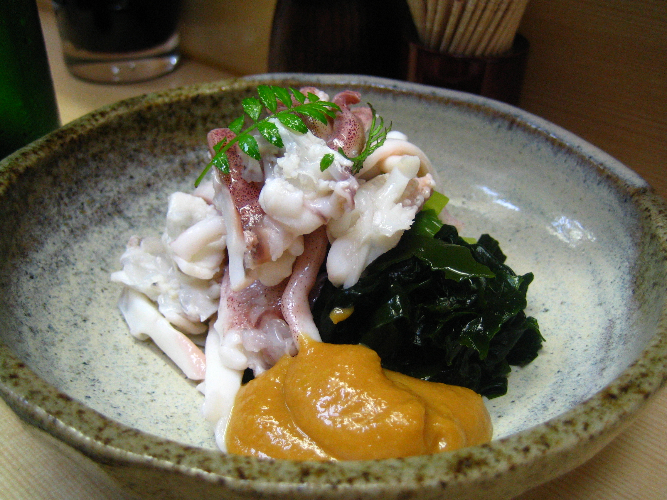 A photo of Nuta(a Japanese cusine.) of boiled squid.